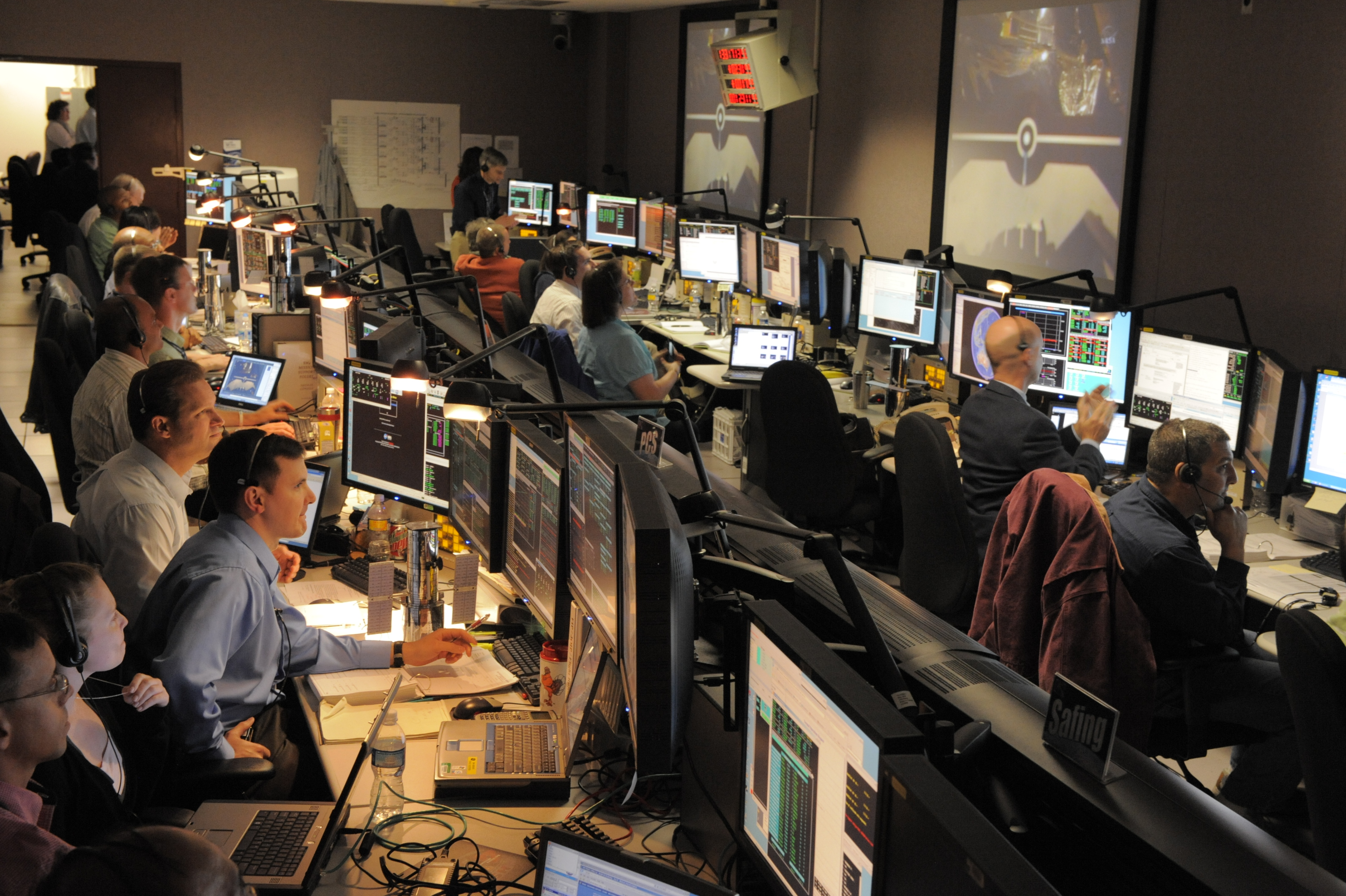 Engineers and controllers watch avidly as astronauts grapple the Hubble Space Telescope and attach it to the Space Shuttle Atlantis for upgrades and repairs in May 2009. Servicing Mission 4 would be one of the most challenging visits to the Hubble Space Telescope. In addition to replacing two instruments, spacewalking astronauts would fix a number of critical components — including some that had not been designed to be repaired. Credit: NASA/Pat Izzo